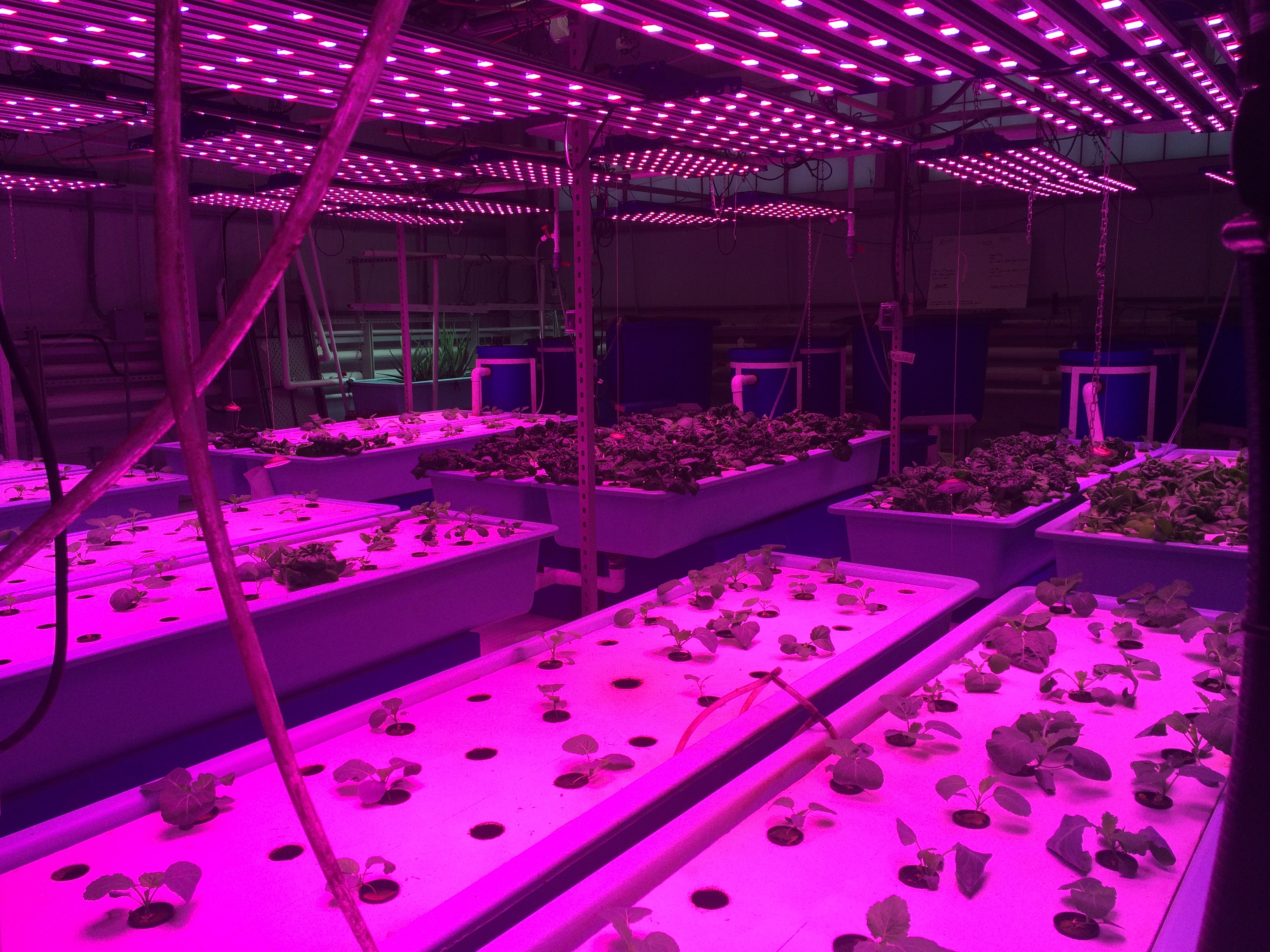 Study to determine effects of varied wavelength of light on multiple forms of produce in an aquaponics system.